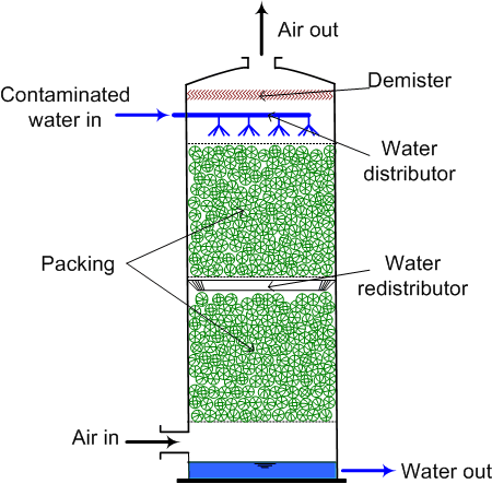 Air stripper for water contaminated with a volatile solvent